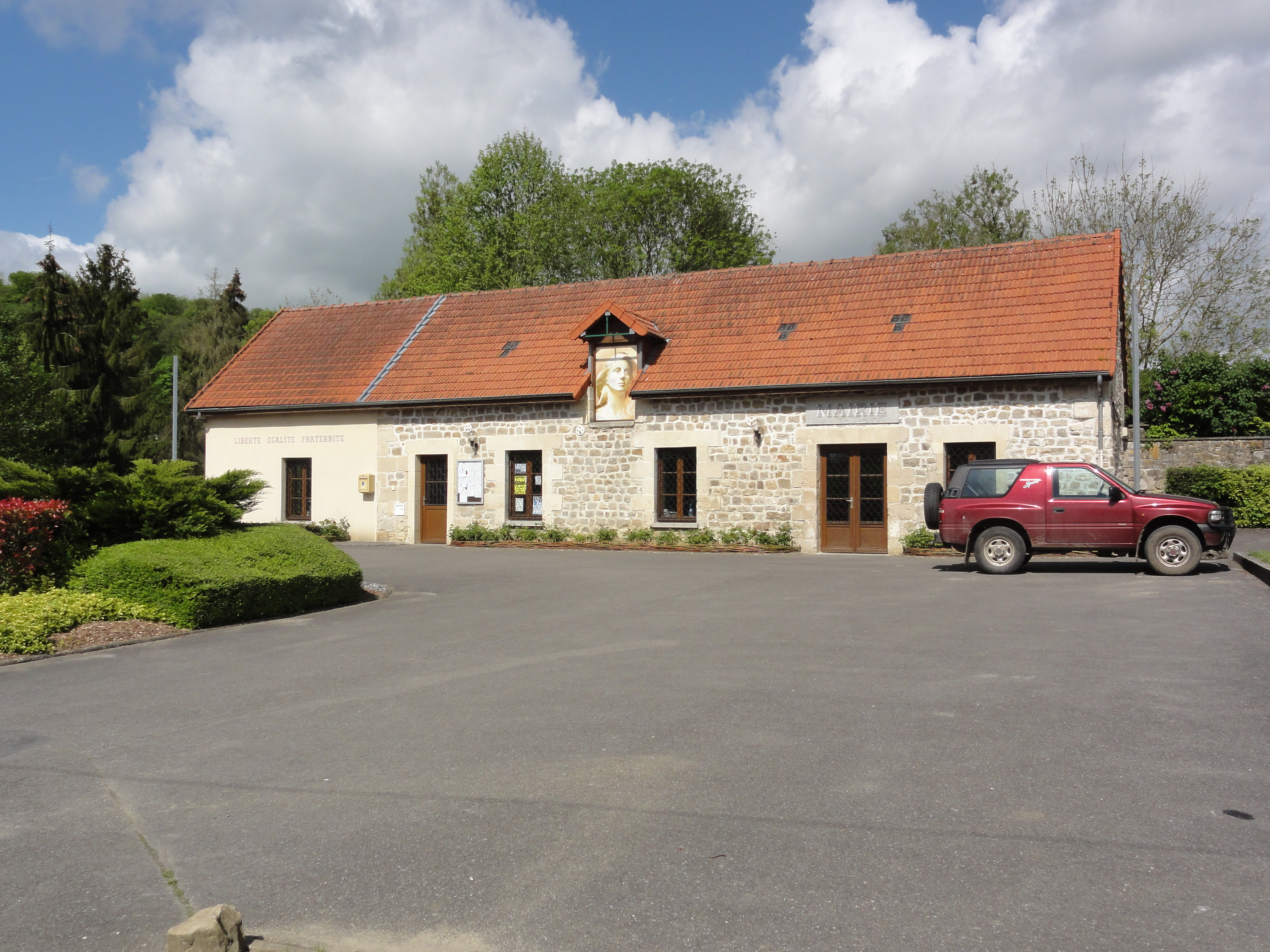 Cessières (Aisne) mairie